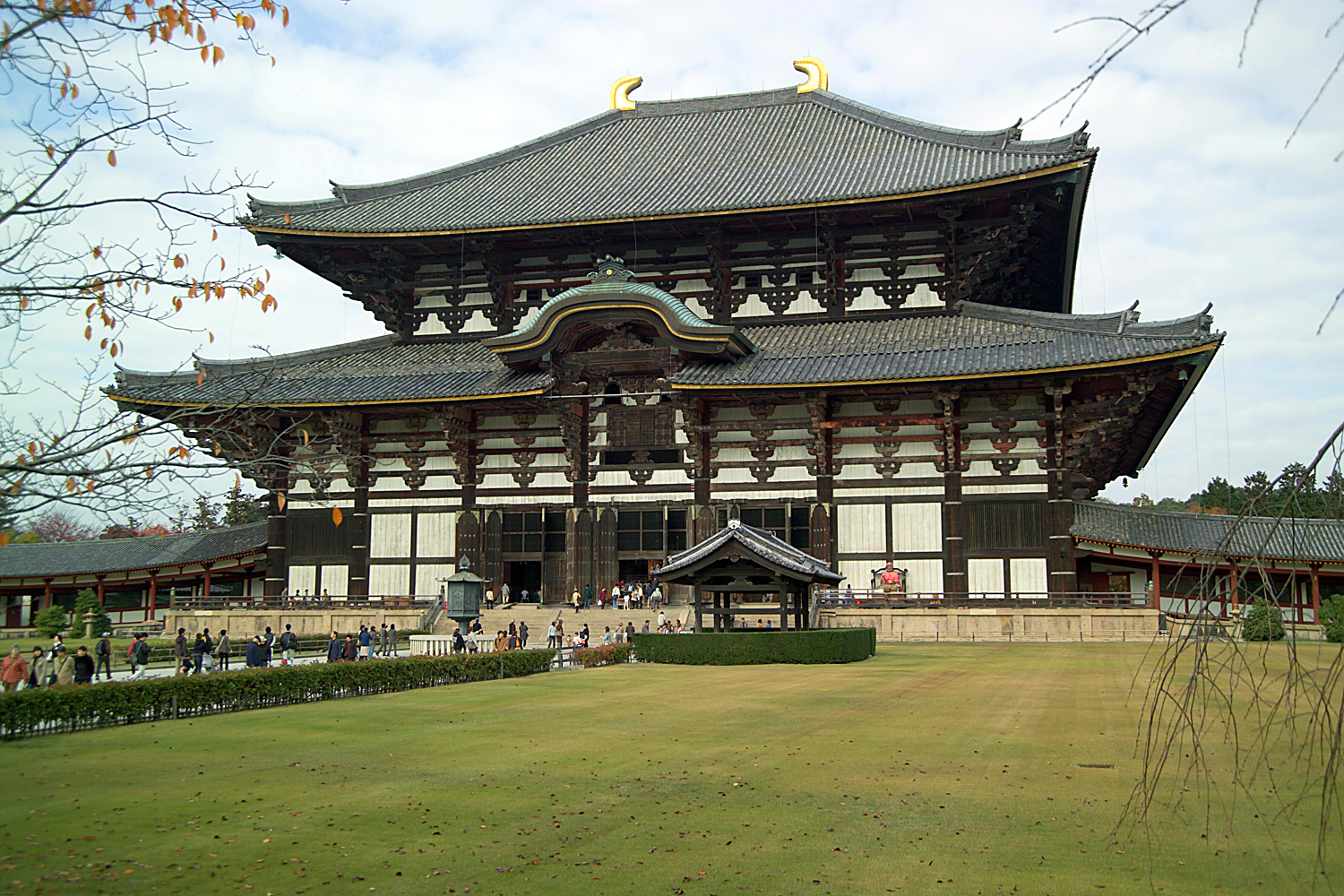 Todaiji Nara Japan I took this photo and contribute my rights in the file to the public domain; people and organizations retain rights over images in it.